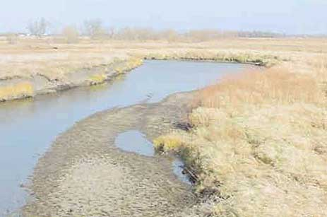 The Ocheyedan River near Spencer in Clay County, Iowa.